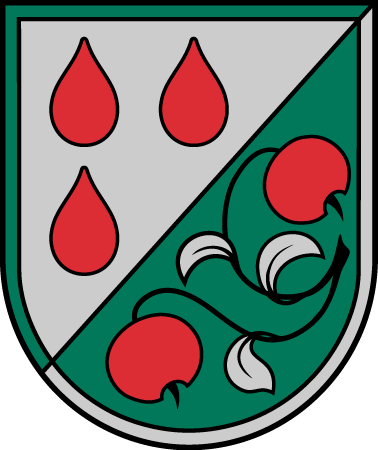 Coat of arms of Olaine Municipality, Latvia.